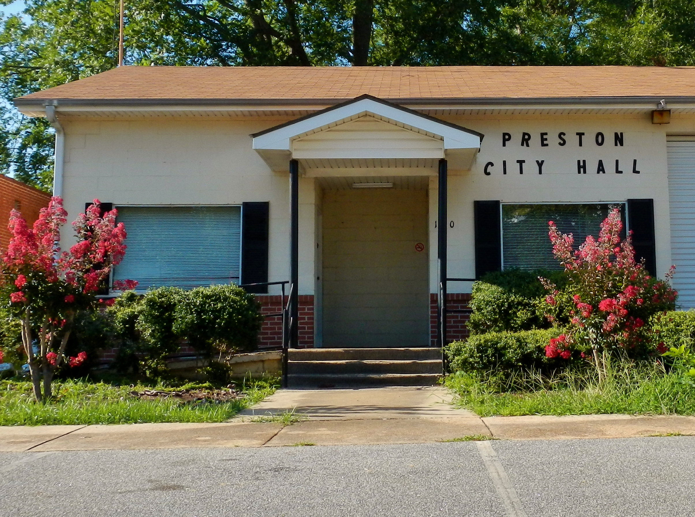 This is a photo of the City Hall in Preston, GA.